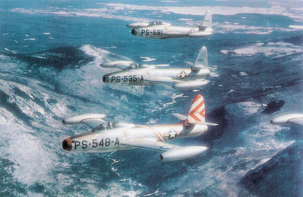 F-84Gs from the 14th Fighter Group, Dow Air Force Base Maine.